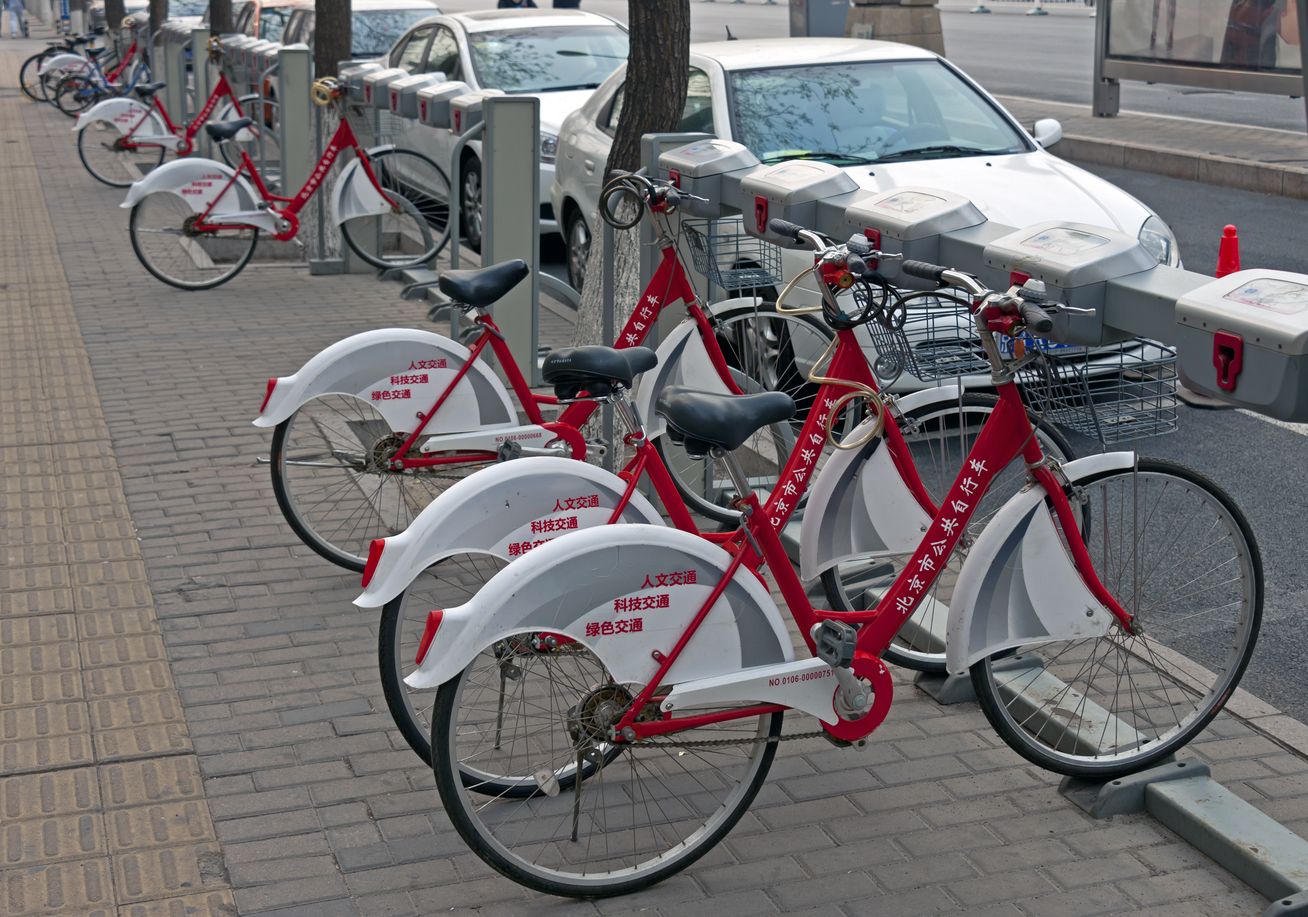 Bike sharing rack along Dongsi Street, Beijing.